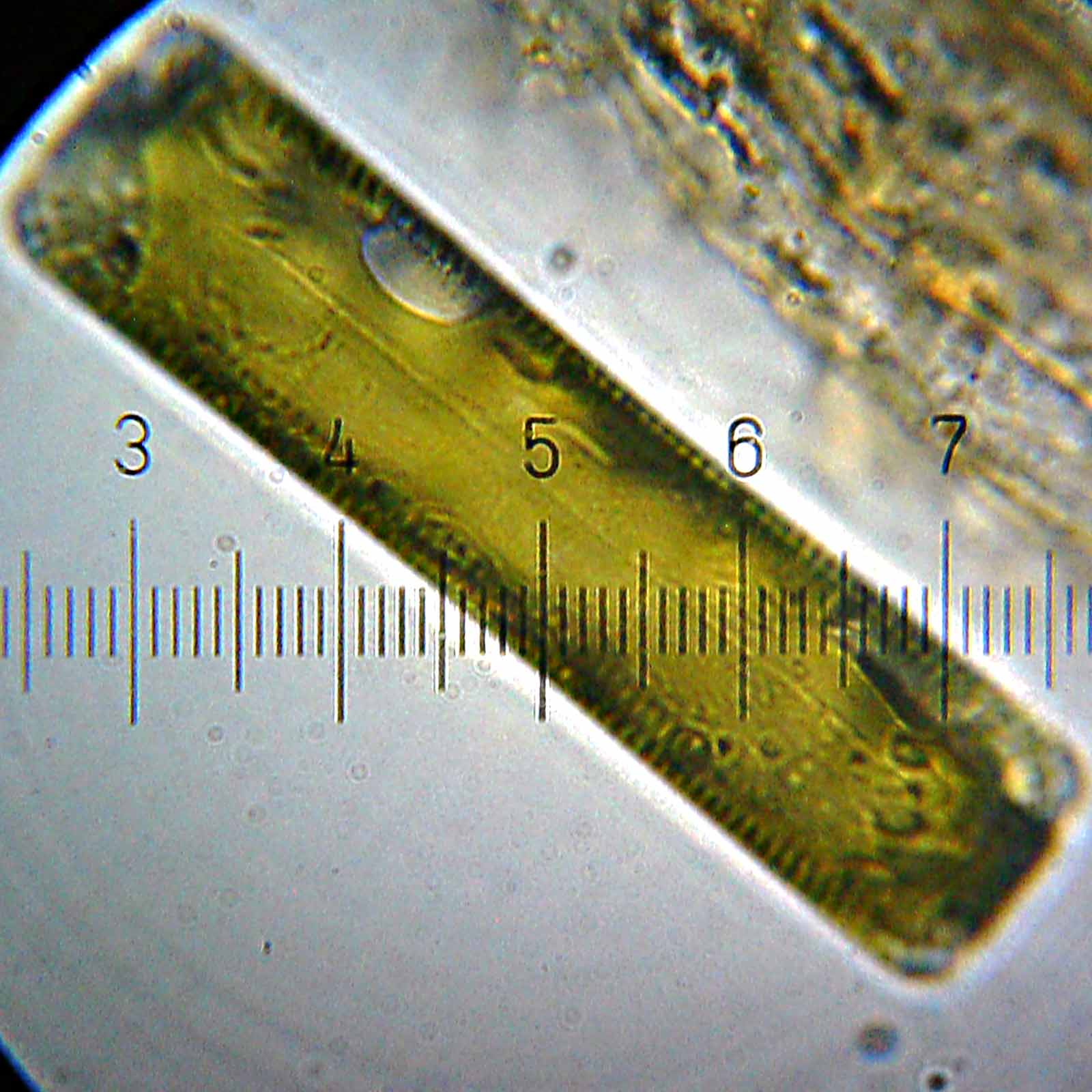 A diatom. 100× objective, 15× eyepiece. Numbered ticks are 10 µM; apart.